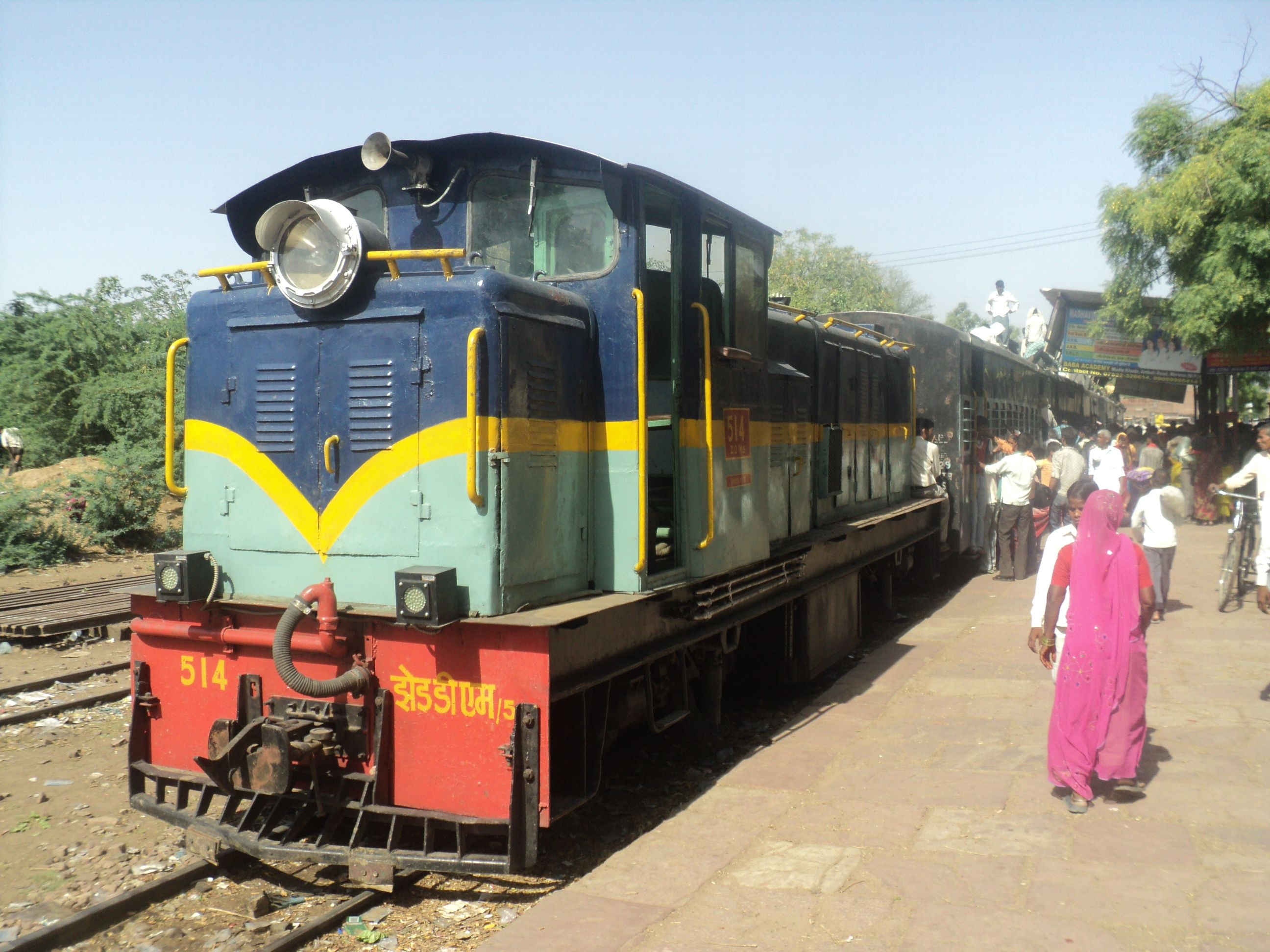 Bari Train